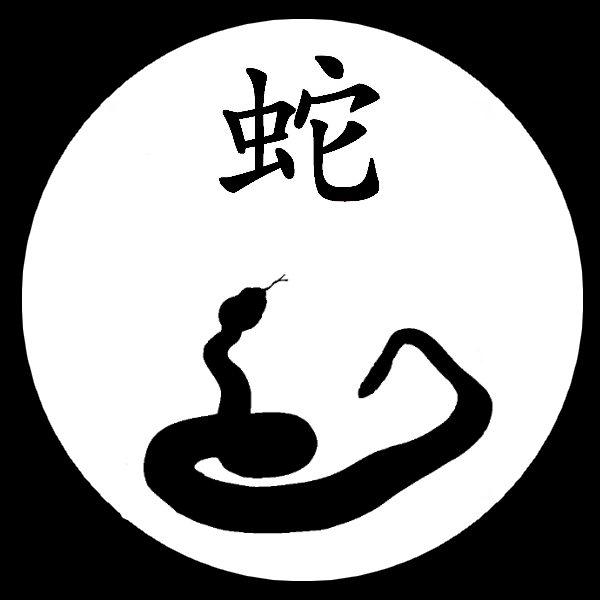 Signe astrologique chinois du Serpent